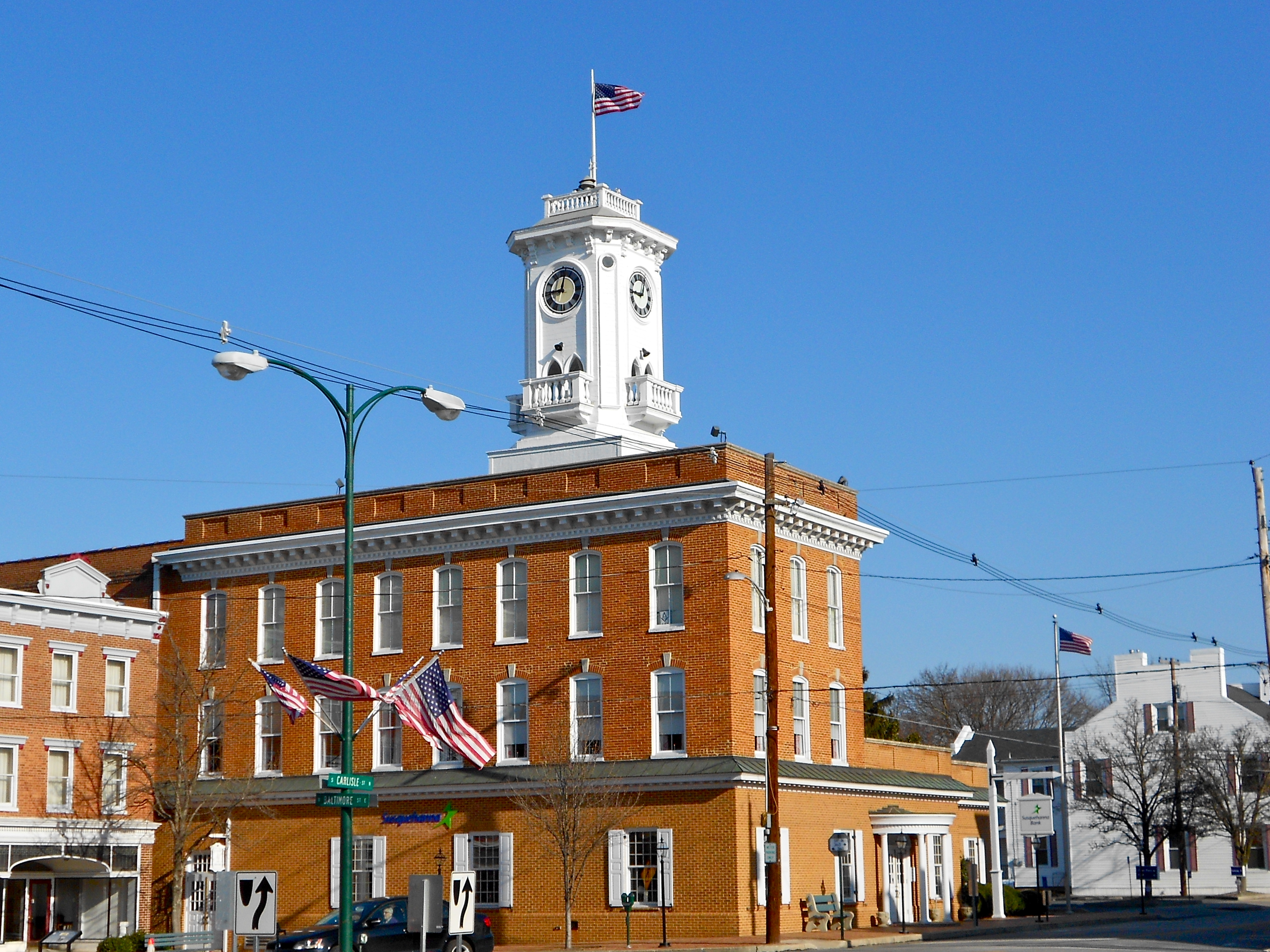 Town Hall on the town square in Greencastle, Pennsylvania at the corner of Carlisle and Baltimore (SR 16). In the Greencastle Historic District on the NRHP since December 24, 1992. Historic District is roughly bounded by Washington, Pennsylvania Route 2002, Jefferson, Mifflin, Chambers, Grant and Allison, and Baltimore north to Spring Grove, Greencastle, Franklin County, Pennsylvania.